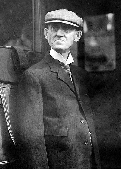 "John T. Brush, New York Giants owner (baseball)" A 1911 image, from the Bain News Service, of John T. Brush.